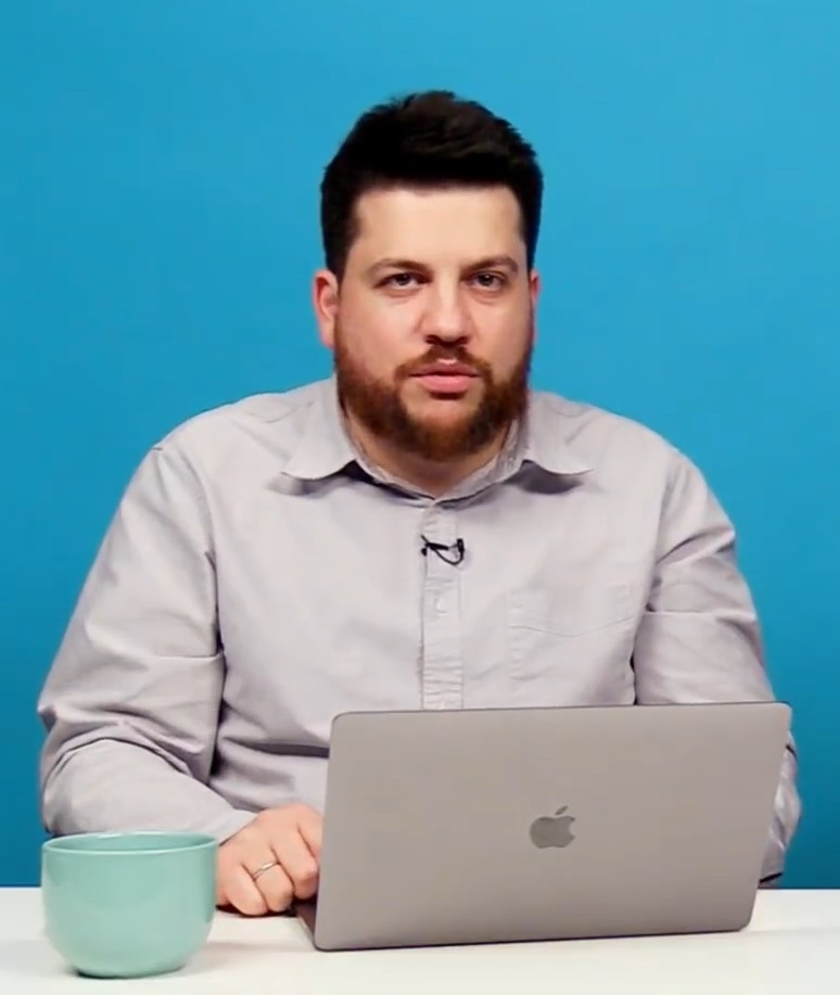 Russian politician Leonid Volkov at his "Navalny LIVE" YouTube channel's program Oblako (The Cloud) #22